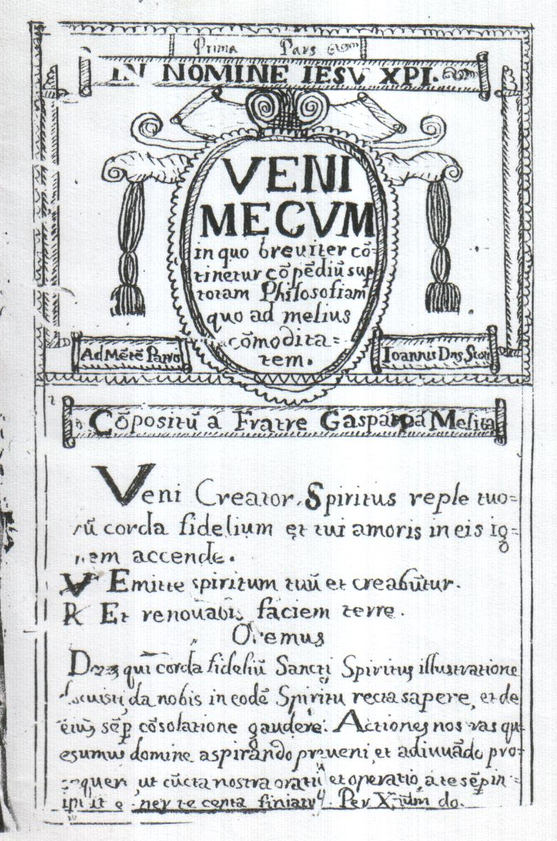 Gaspar Grima's Venimecum